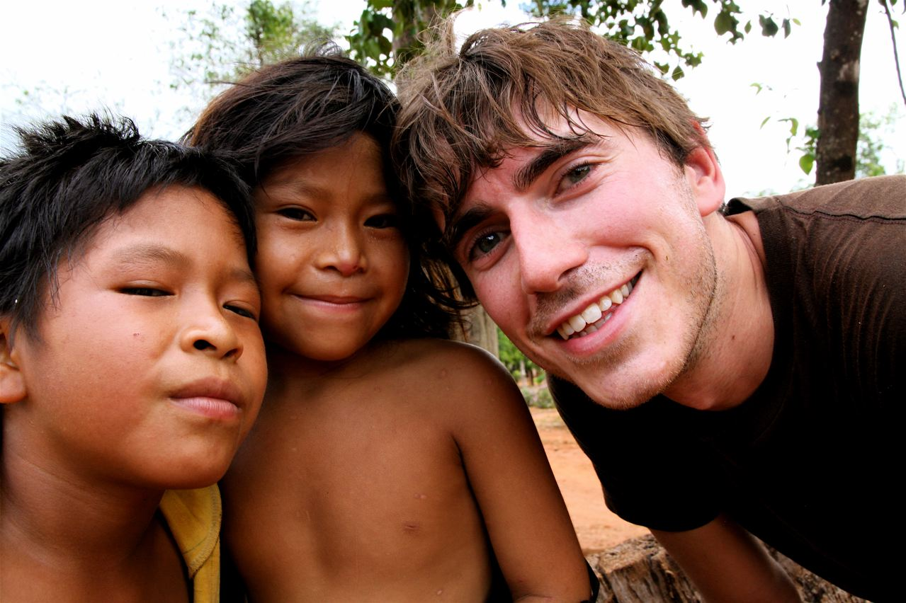 PARAGUAY - with young Ache children in the Mbaracayu forest